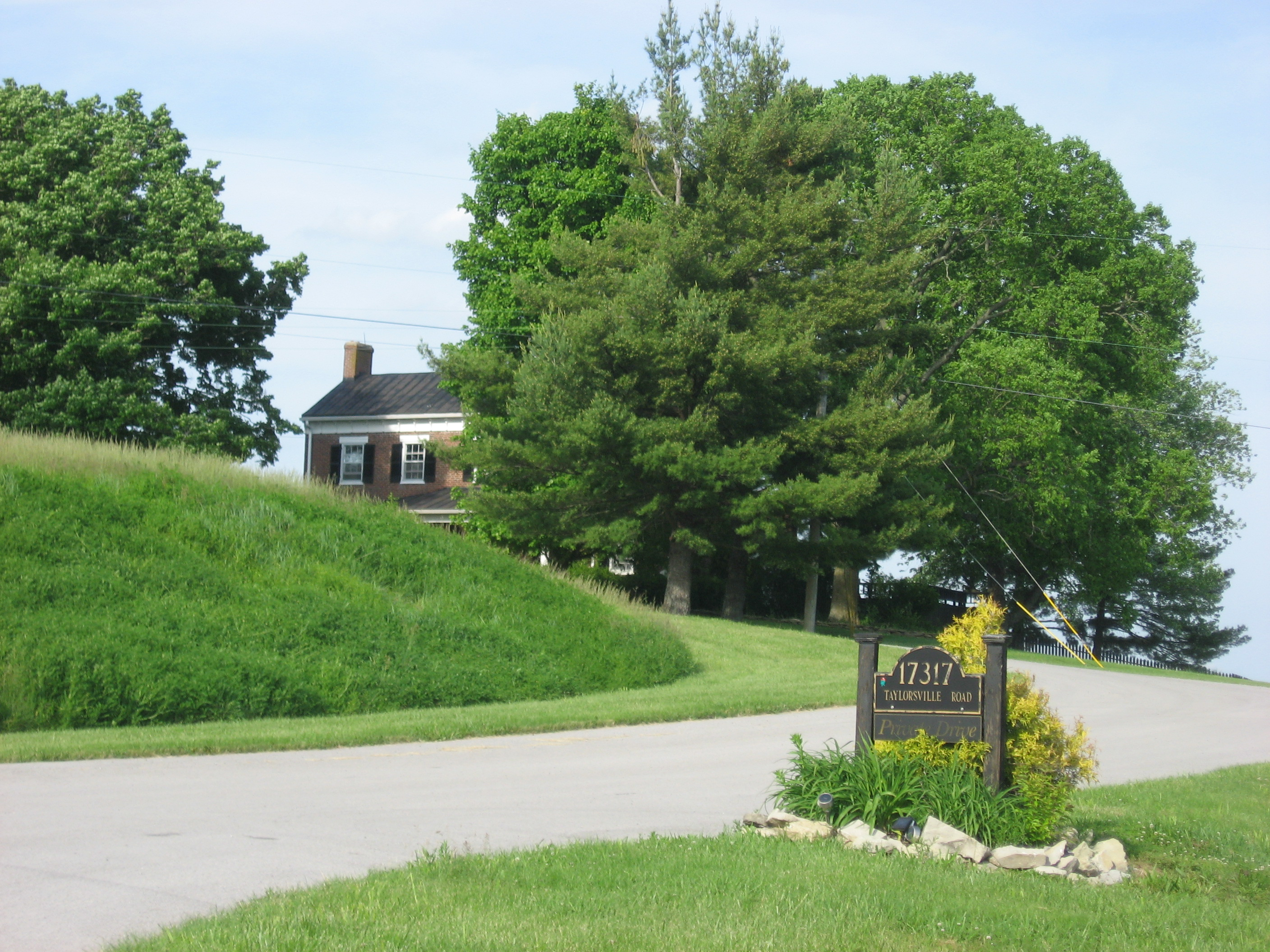 Front of the Simeon Moore House, located at 17317 Taylorsville Road in Louisville, Kentucky, United States. Built in 1825, it is listed on the National Register of Historic Places.